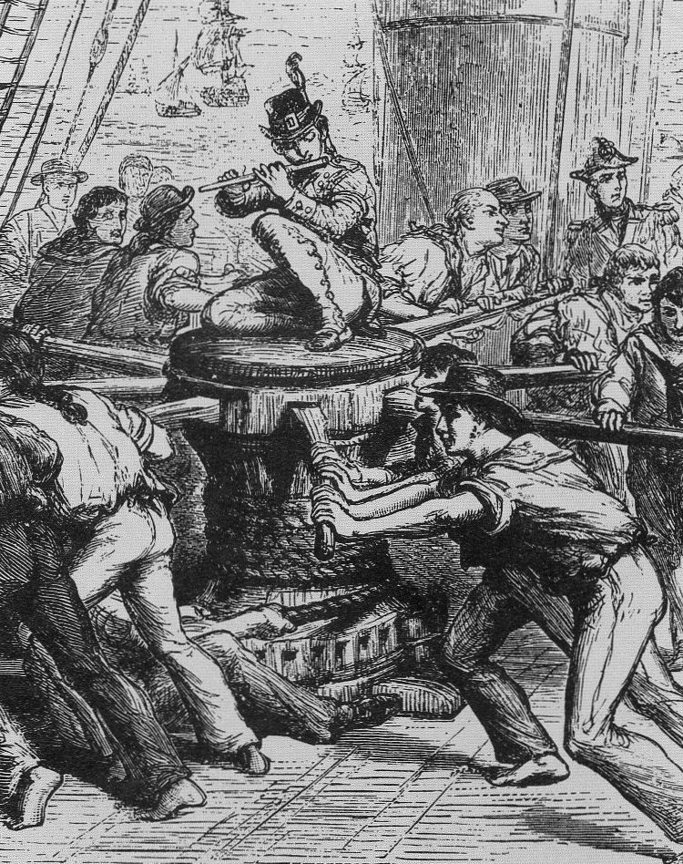 An orignal print of seamen working at a capstan